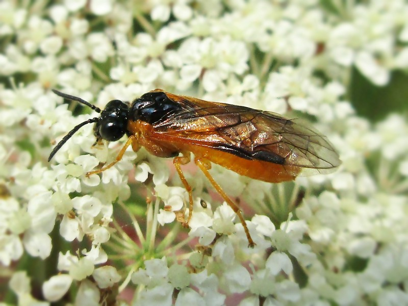 Selandria serva (Tenthredinidae) - (imago), Arnhem - Elderveld, the Netherlands